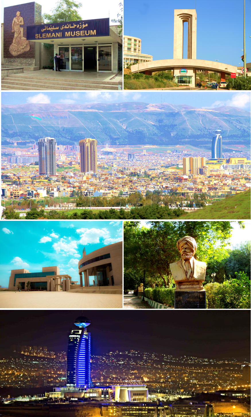 Sulaymaniyah City Collage